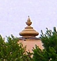 cropped version of File:MUM campus and tower .JPG, showing the kalash on the top of the Bagambhrini Golden Dome in Fairfield, Iowa.